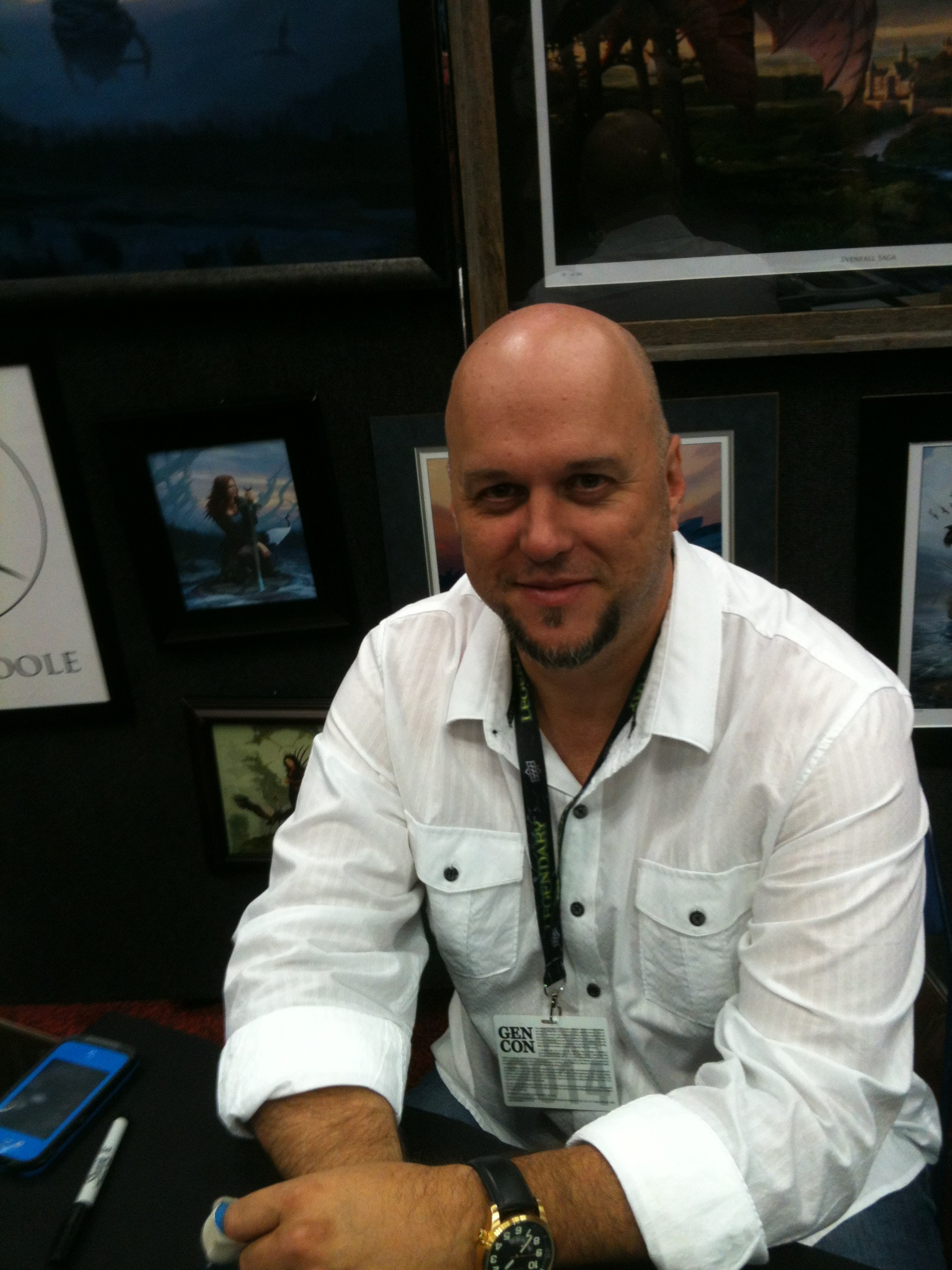 Artist Mark Poole at Gen Con Indy 2014 on August 15, 2014.